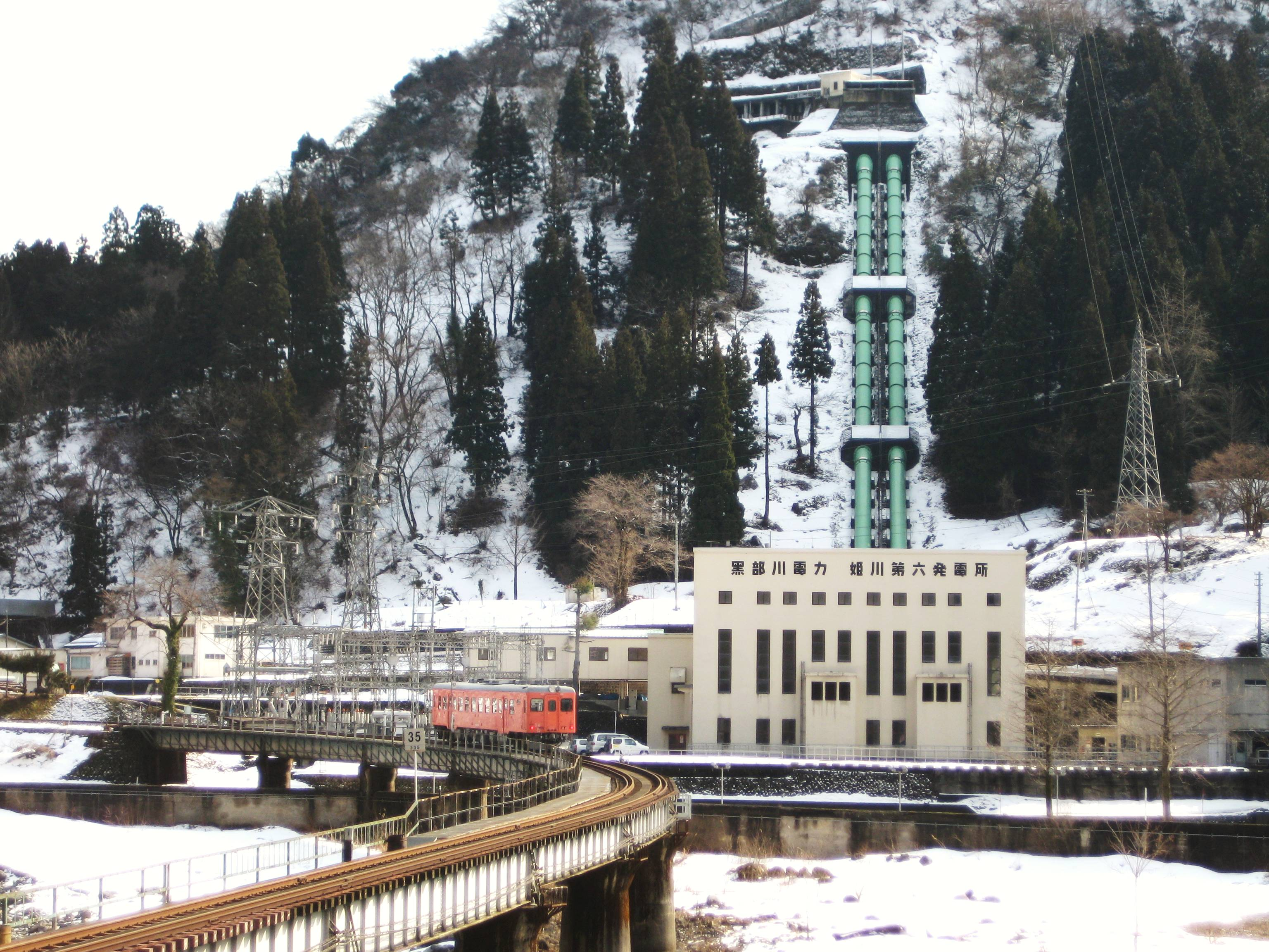 Himekawa VI power station.